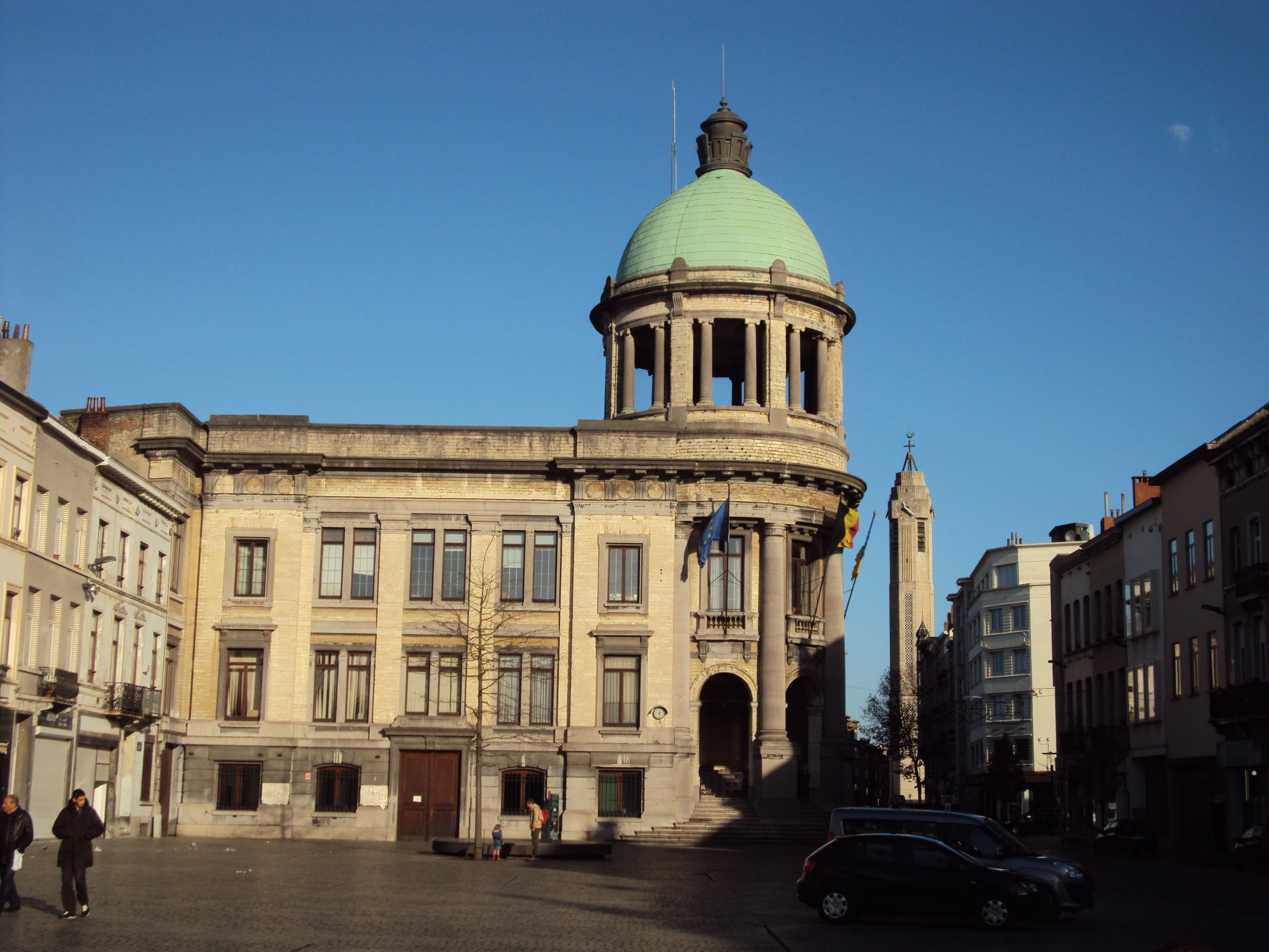 City hall of Sint-Jans-Molenbeek seen from the Place communale/Gemeenteplaats from the South, with the Art-Deco-Steeple of the Church of John the Baptist